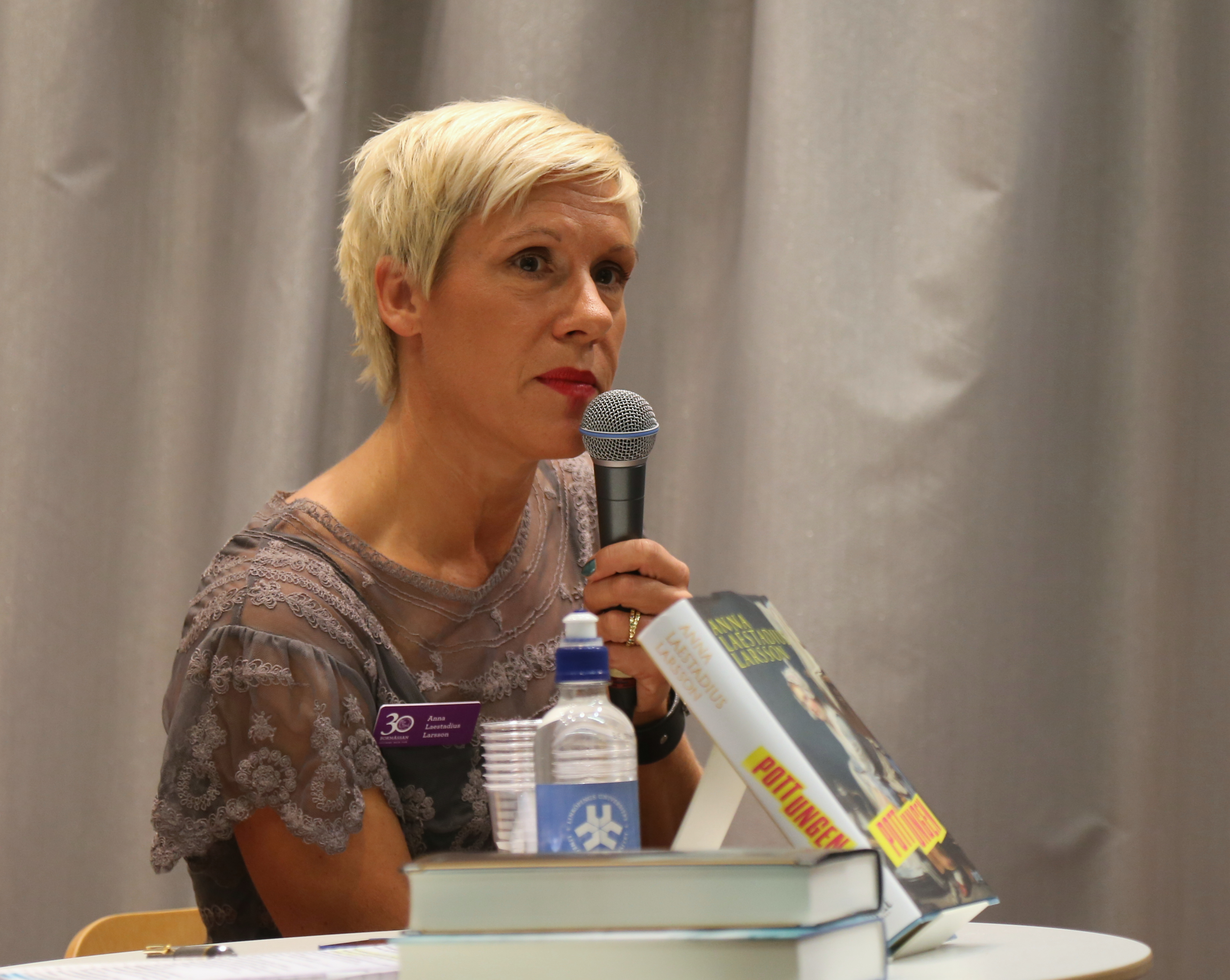 Anna Laestadius Larsson at the Gothenburg book fair 2014.